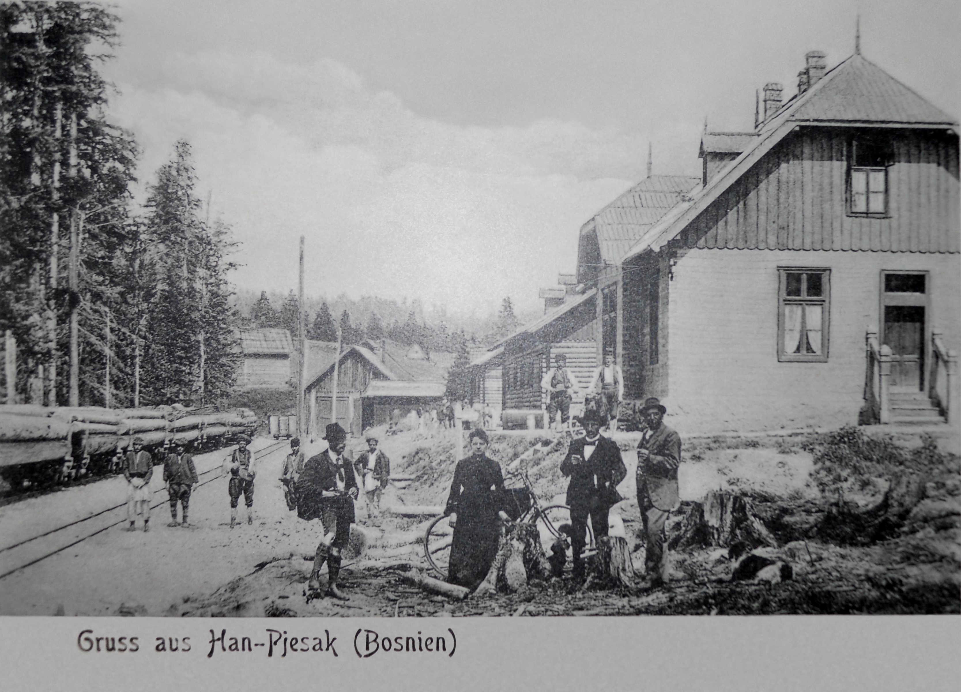 Narrow-gauge railway station in Han Pijesak